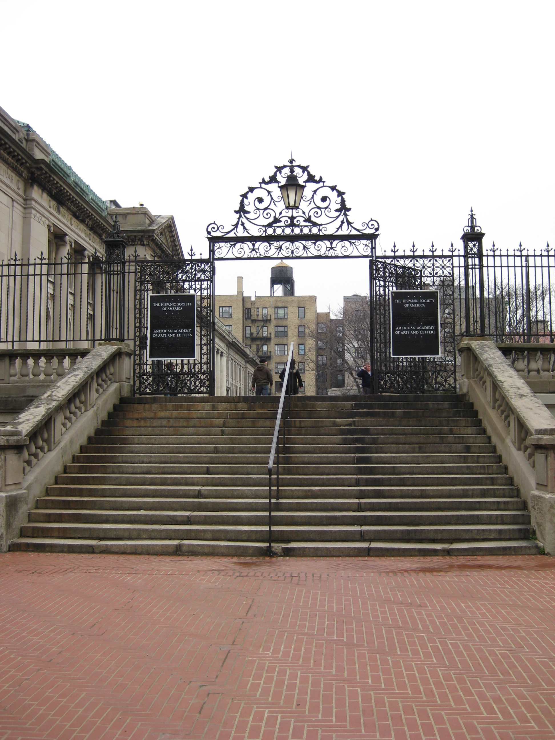 This photo is of Wikipedia Takes Manhattan location code 15, Hispanic Society of America.